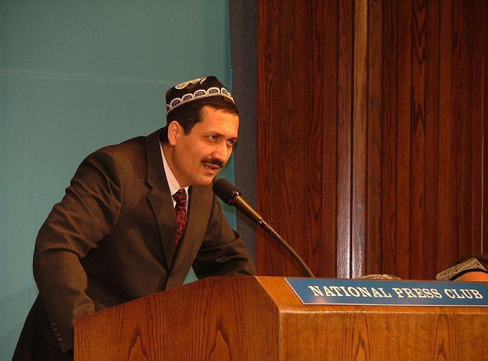 Prime Minister Anwar Yusuf Turani speaking at the National Press Club in Washington D.C. on November 22, 2004.